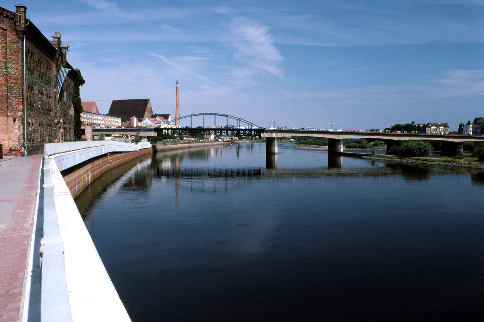 Frankfurt (Oder) - Słubice, city bridge from 1952; Frankfurt (Oder), Germany